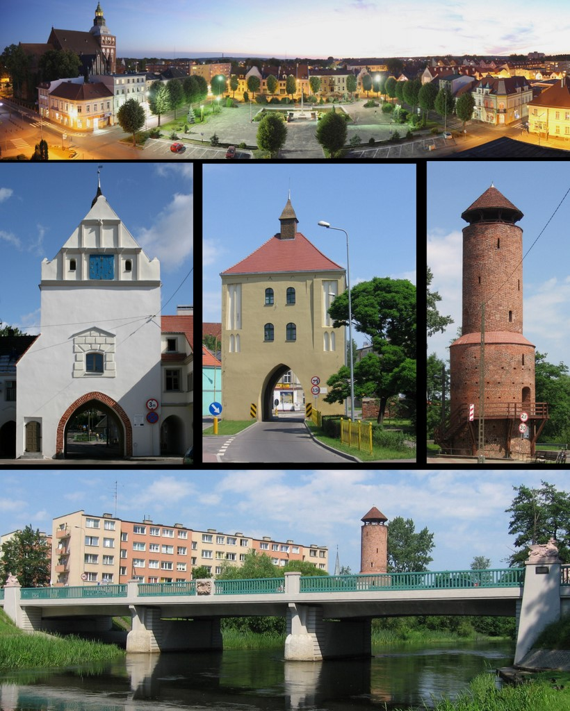 Collage of views of Gryfice, Poland - Top:Town Square (plac Zwycięstwa), Middle left: Kamienna Gate, Middle centre: Wysoka Gate, Middle right: Powder Tower, Bottom: Bridge in Gryfice